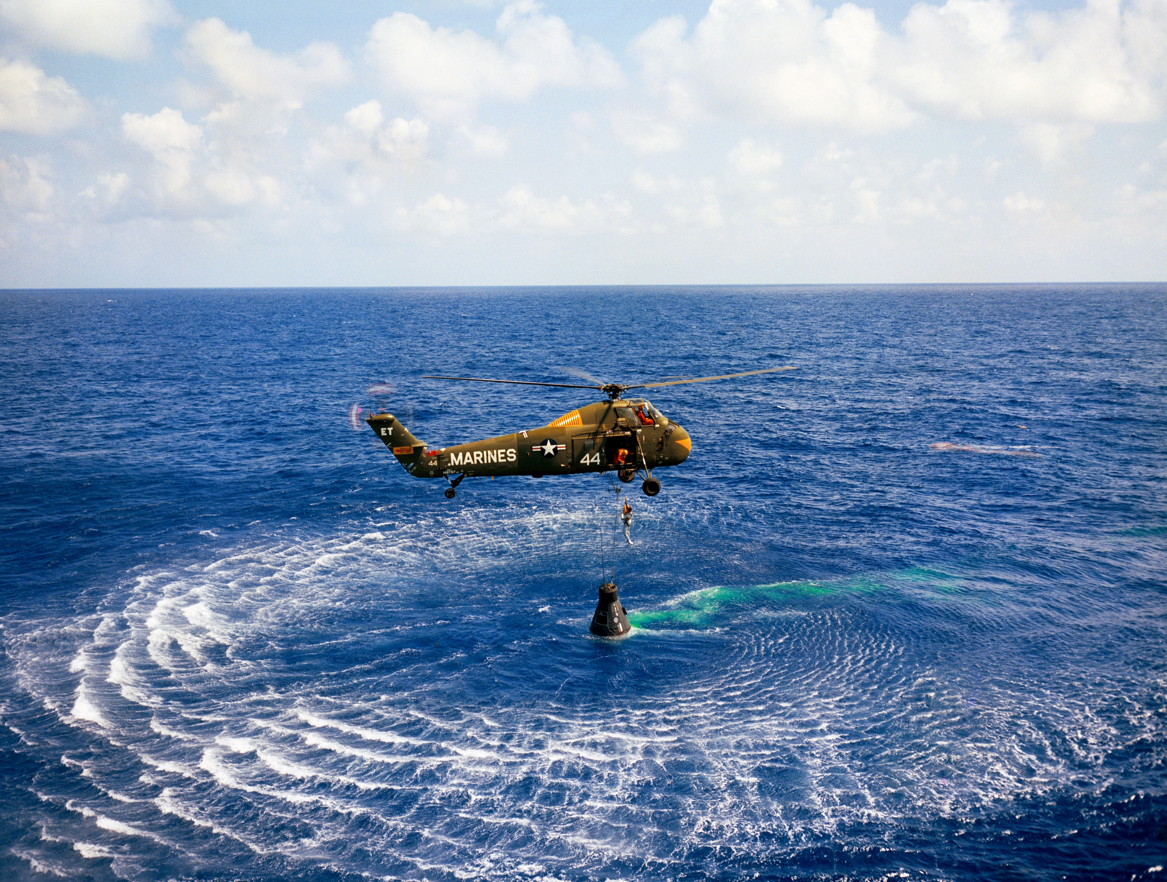 Astronaut Alan B. Shepard Jr. is rescued by a U.S. Marine helicopter at the termination of his suborbital flight May 5, 1961, down range from the Florida eastern coast.